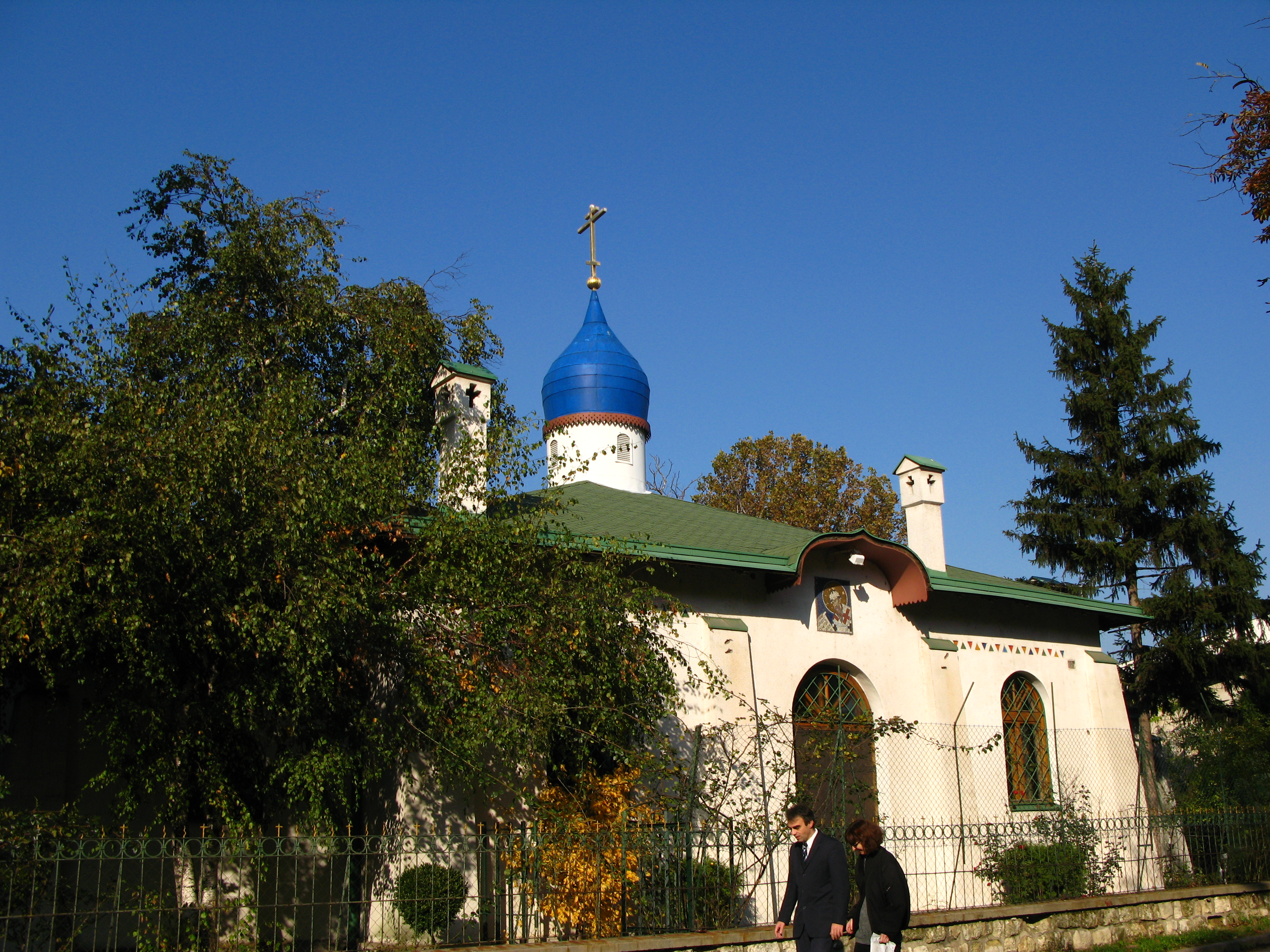 Russian church "Holly trinity" in Belgrade, Serbia.